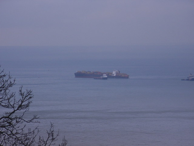 MSC Napoli. This ship, carrying 2400 containers was holed in storms on 18th January 2007. The condition of the ship deteriorated while it was being towed to Portland Harbour, so it was deliberately beached to avoid it sinking (news story ). The actual location is 50 40.38N 003 09.59W which is actually 500m south of the stated location but the sites maps can't cope with squares all at sea. Some of the containers that fell off were washed ashore at Branscombe Beach 240956 causing significant numbers of people to 'salvage' goods (including BMW motorbikes). In the frenzy containers not fully beached were opened, causing their contents to become water damaged and one container opened contained personal possessions of a family moving to South Africa. Story here: There was also a significant amount of oil from the ship, and possibly other chemicals from the cargo, released causing a large number of birds, mostly Guillemots to become oiled - about 1000 were taken into care from as far east as Chesil Beach 174345 and Portland Bill 95723 but northerly winds mean many times this number probably died at sea. Story